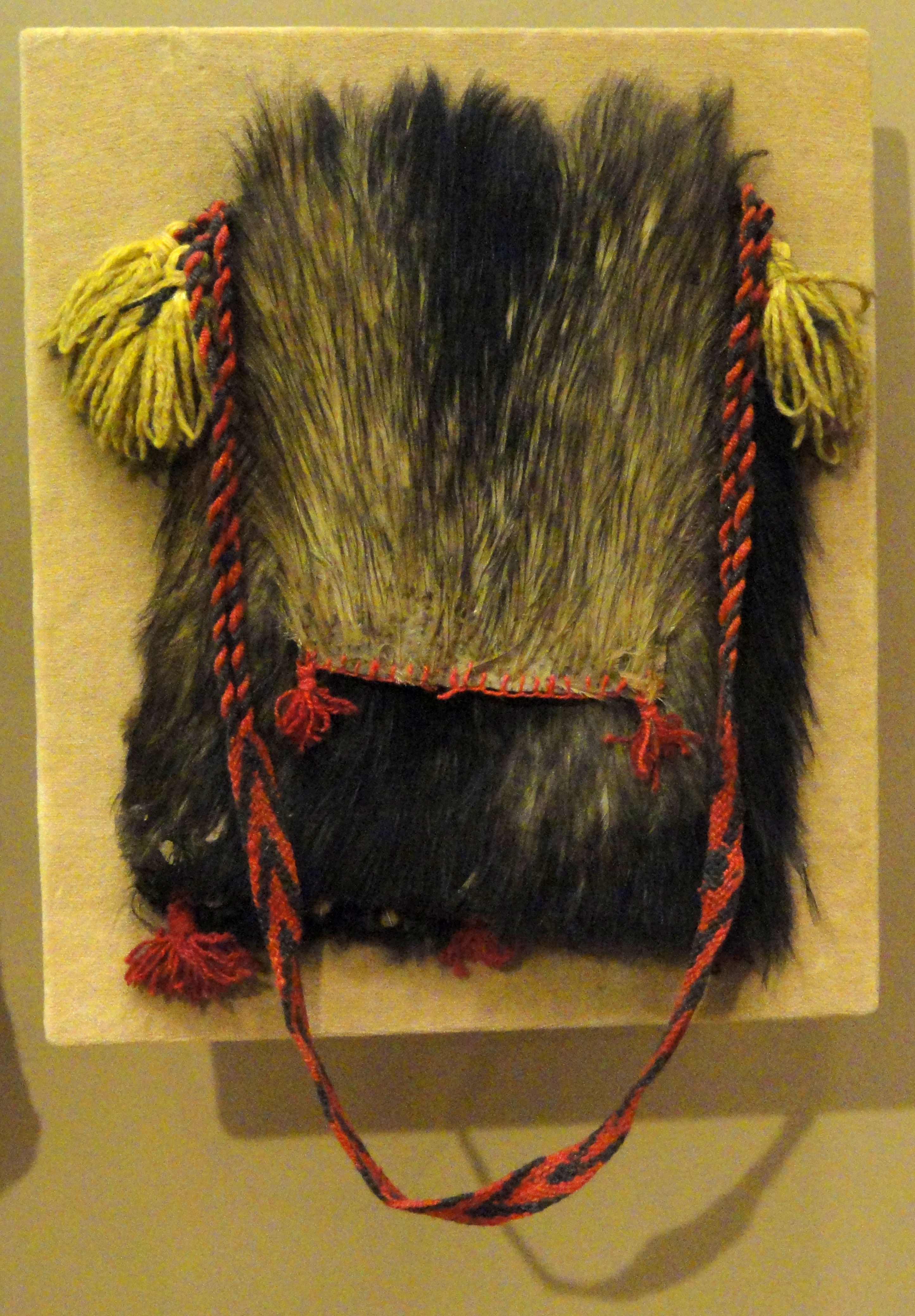 Exhibit in the South American collection of the American Museum of Natural History, Manhattan, New York City, New York, USA.